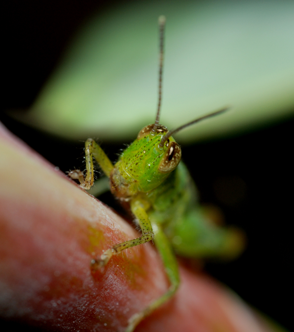 Baby Grasshopper hiding behind a bud